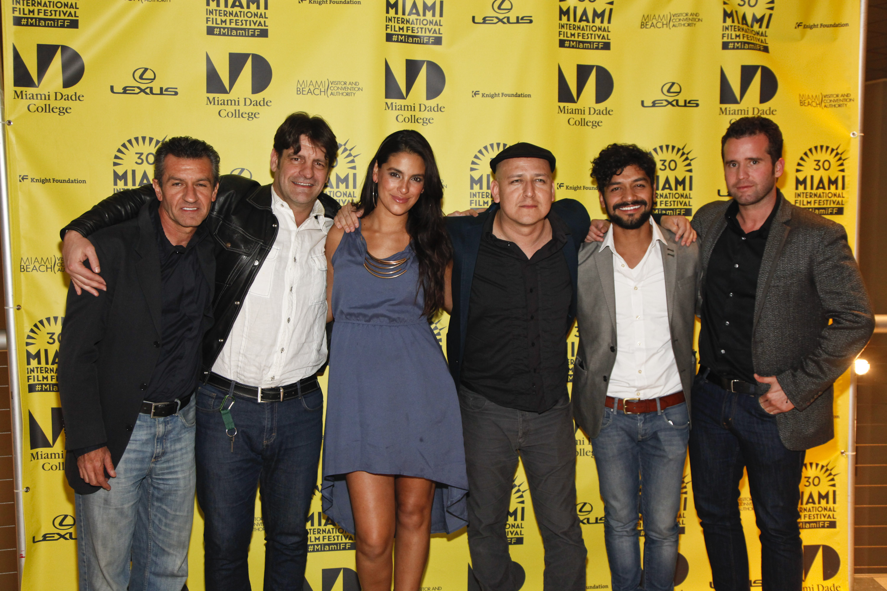 The cast & crew of Cinco De Mayo: The Battle at MIFF 2013: World Premiere at Regal South Beach Cinemas on March 7, 2013. From left: Producer Paco Gallastegui, actor JC Montes Roldan, actress Liz Gallardo, director Rafa Lara, actor Christian Vázquez and Antonio Merlano